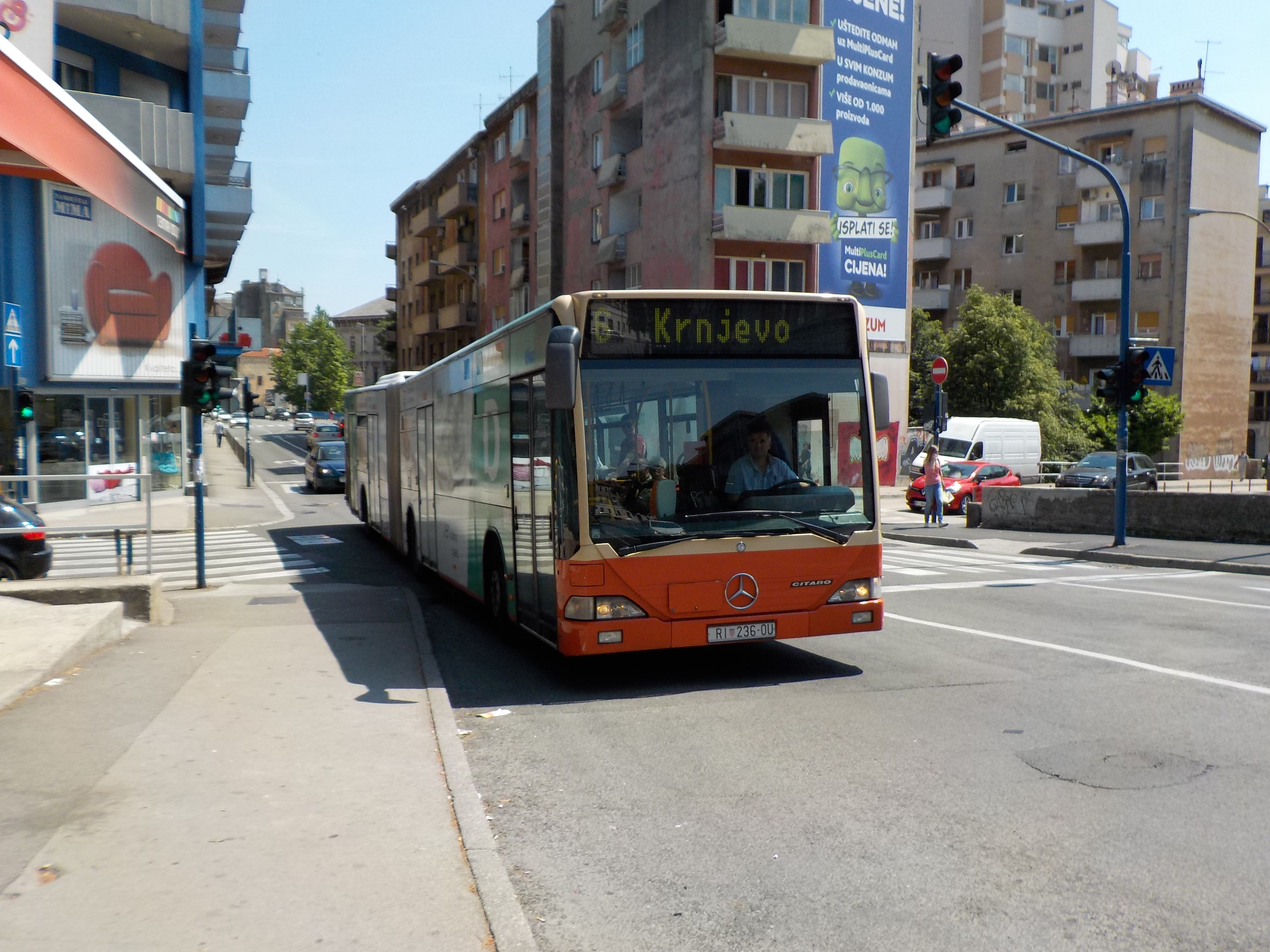 Mercedes - Benz Citaro G bus in Rijeka